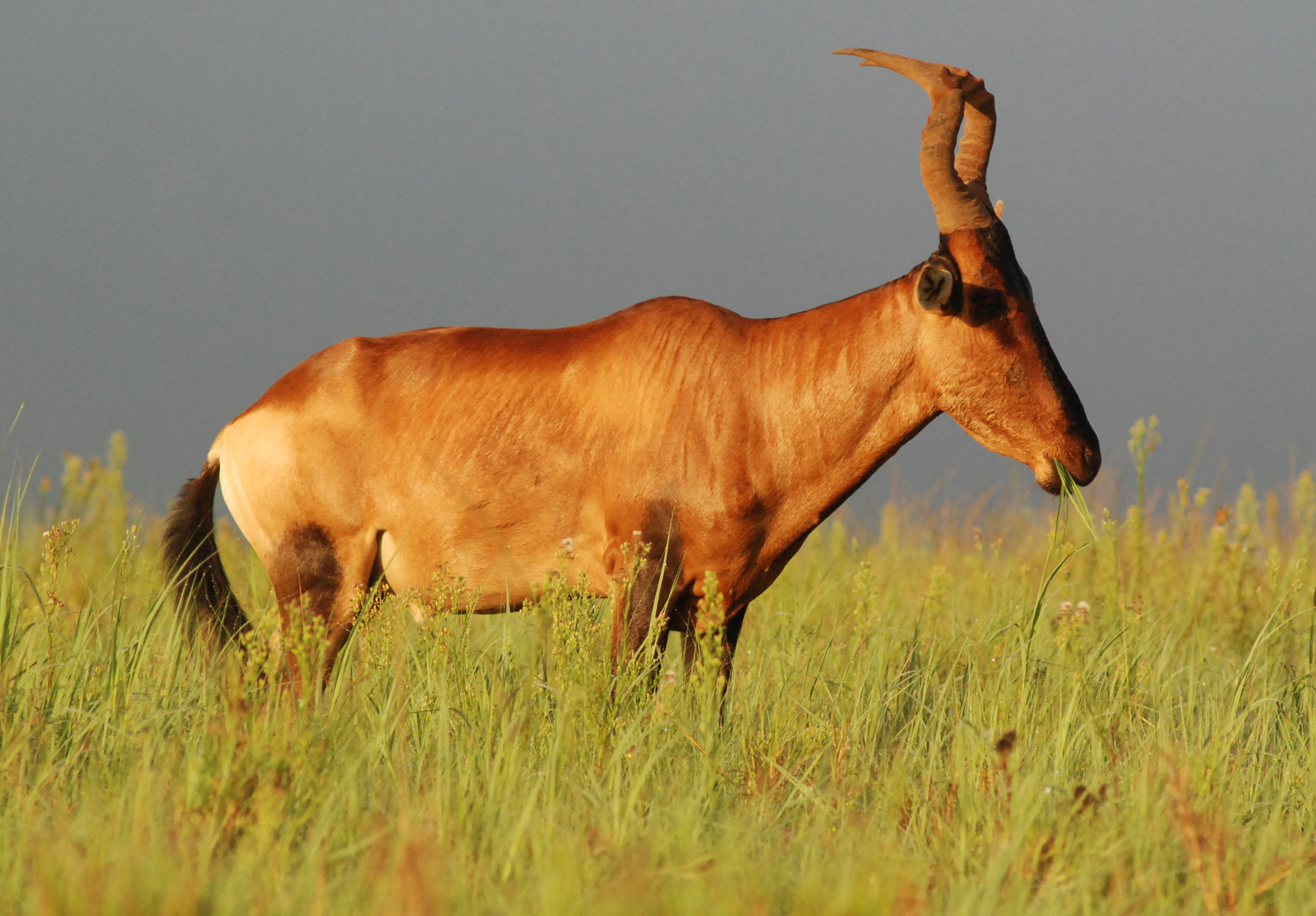 Red Hartebeest (Alcelaphus caama) side profile - Addo Elephant National Park